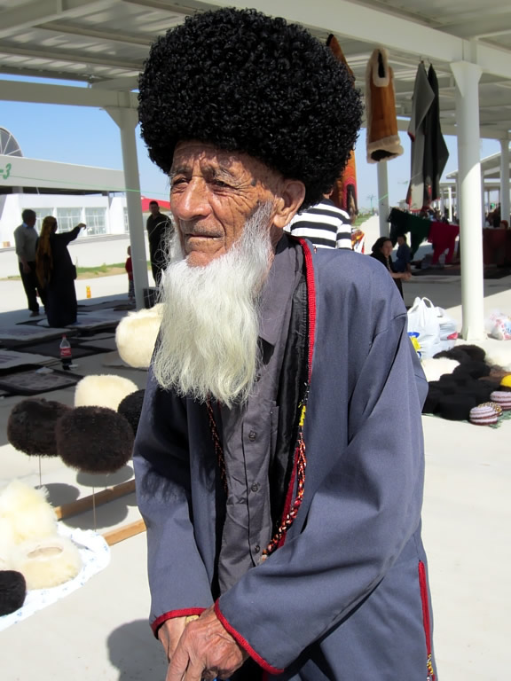 senior citizen, Tolkuchka Bazaar, Ashgabat, Turkmenistan.